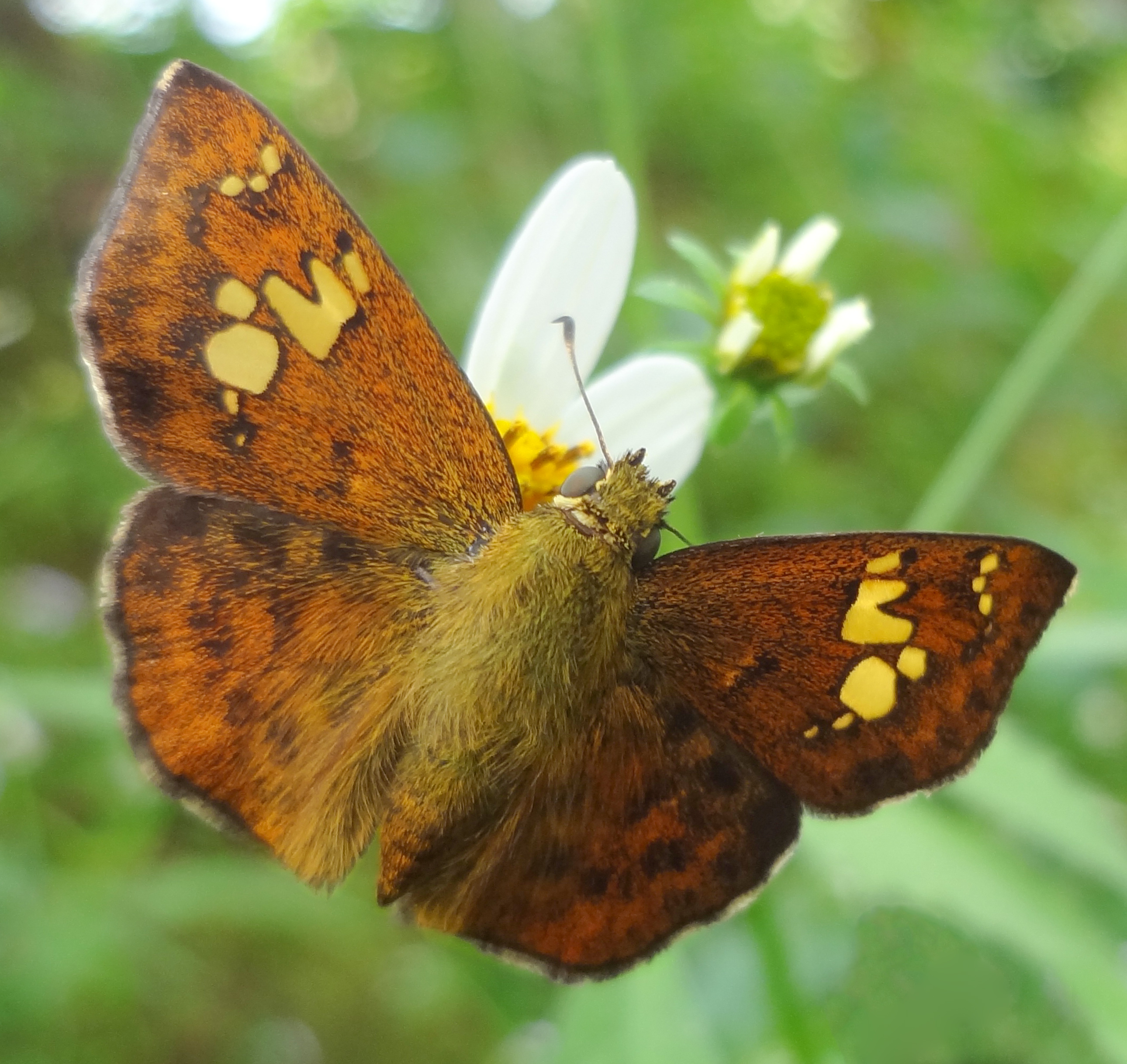 Fulvous Pied Flat